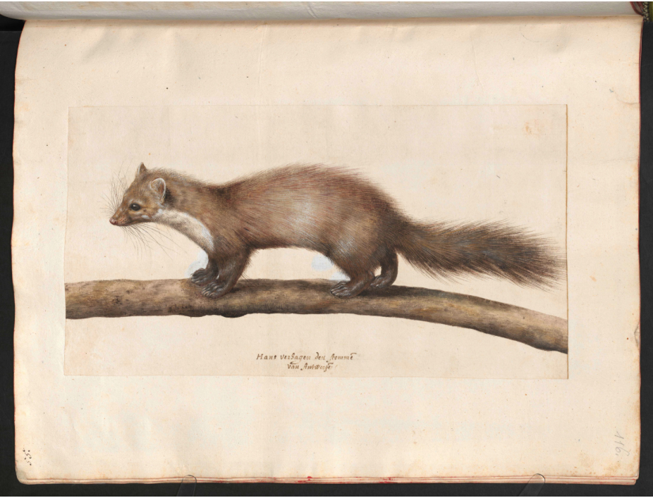 Hans Verhagen den Stommen, Drawing of a stone marten, paper, brush in colour, body colour, from a codex of natural history drawings from the collection of Emperor Rudolf II, now kept at the Österreichische Nationalbibliothek